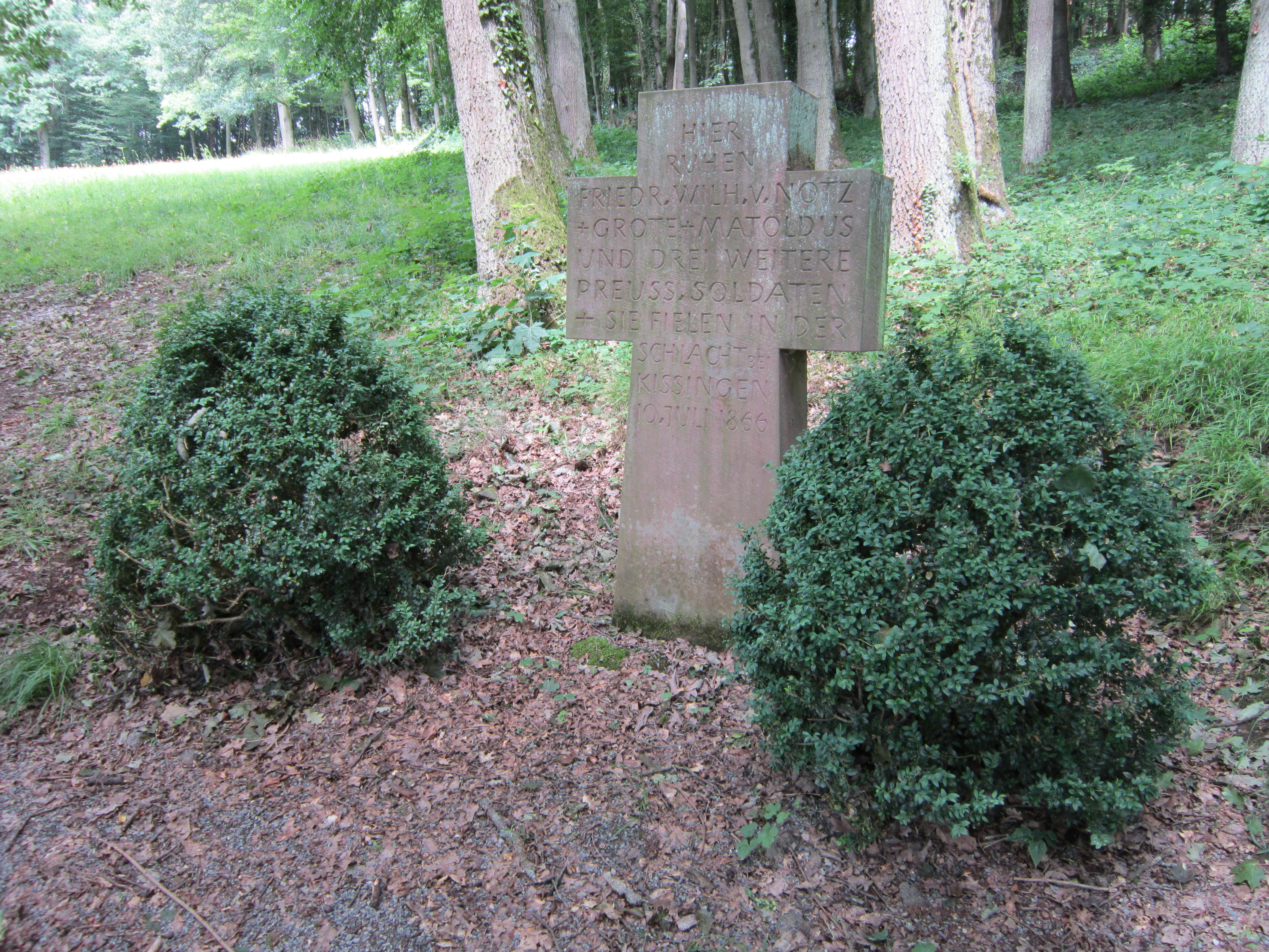 Soldier grave from the Battle of Kissingen (Bavaria, Germany) in the year 1866. The grave is situated on the Altenberg in Garitz, a quarter of Bad Kissingen.